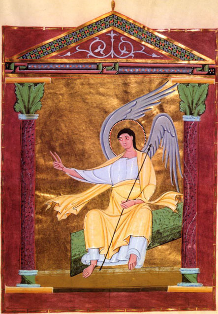 Folio 117r from the Pericopes of Henry II